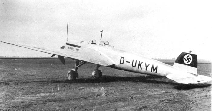 Heinkel He 118 - German dive bomber build in 1936